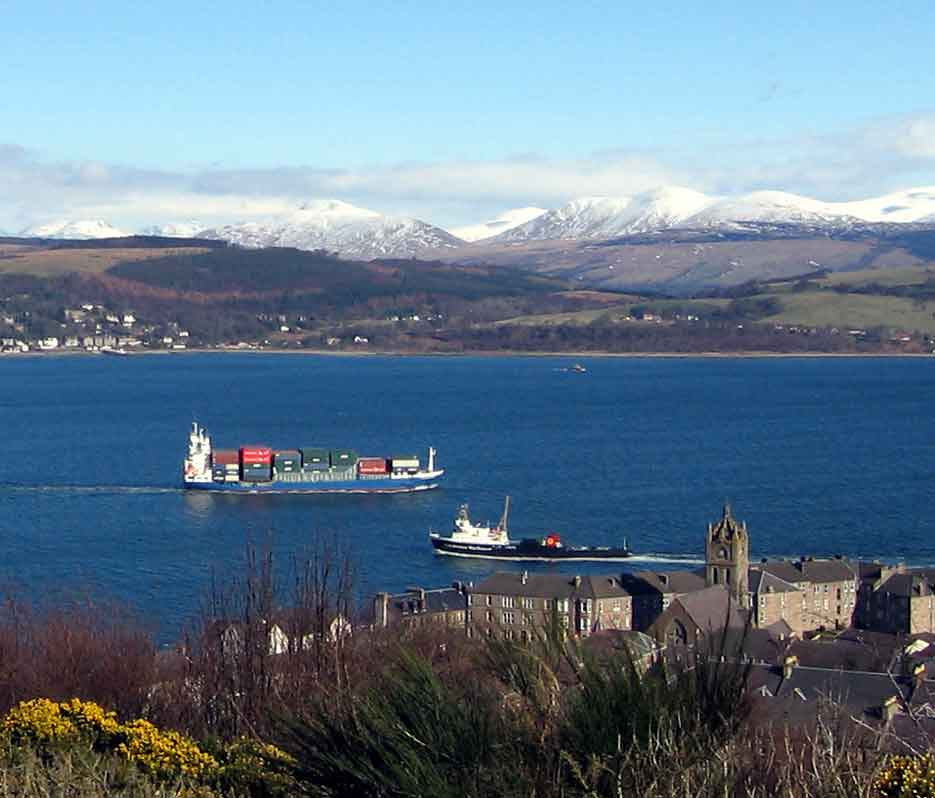 Caledonian MacBrayne ferry MV Saturn passes a container ship off Gourock, Scotland.